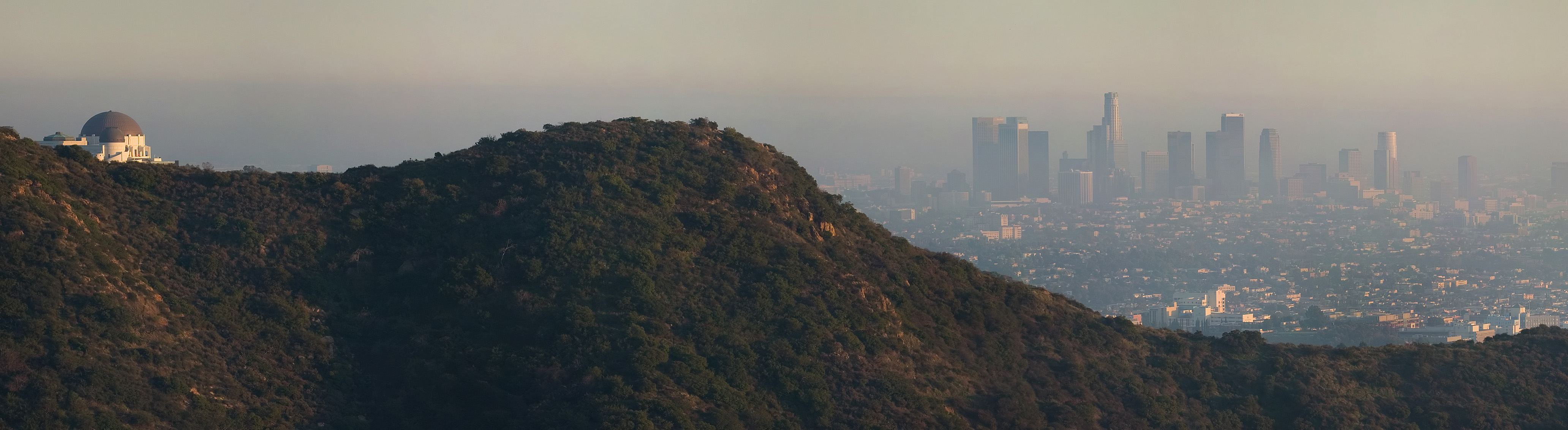 Los Angeles and Griffith Observatory, as viewed from the Hollywood Hills. Taken as a 20 segment 2x10 panorama with a Canon 5D and 70-200mm f/2.8L lens.